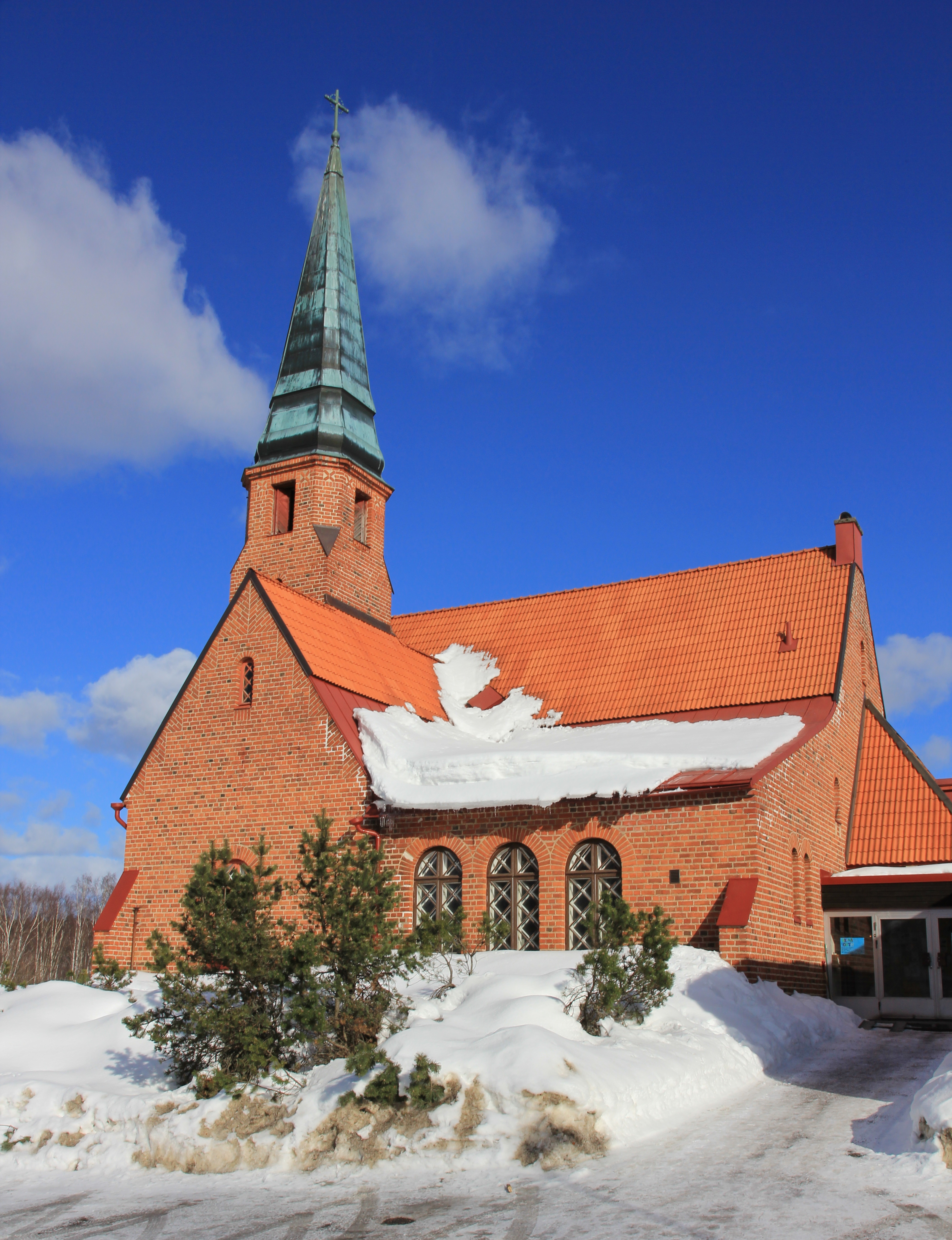 Betlehemskyrkan, swedish methodist parish church in Kauniainen.